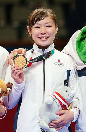 Karate at the 2018 Asian Games – Women's kumite +68 kg